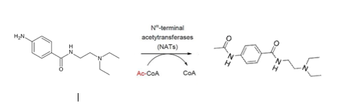 Nacetyltransferase